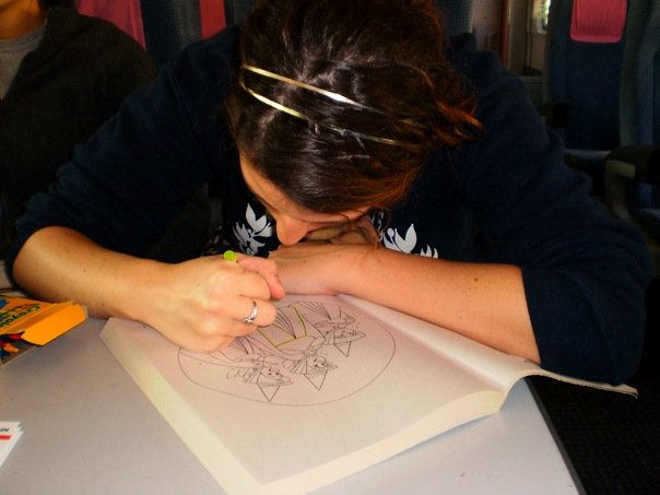 sam smith on a train with a coloring book